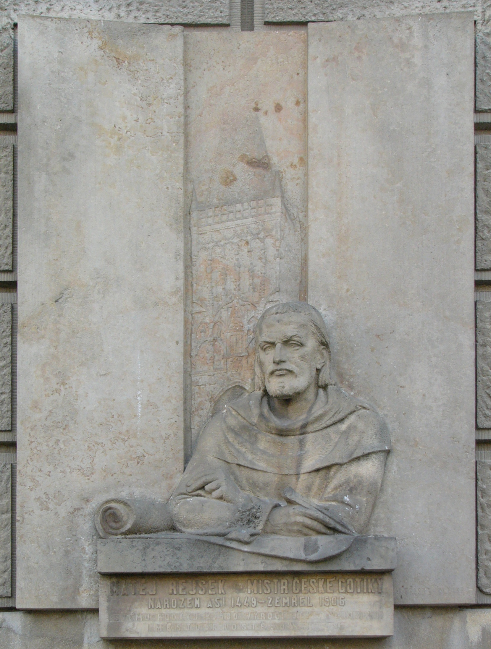 Memorial plaque of Czech architect Matěj Rejsek by Jan Tříska at New town hall in Prostějov